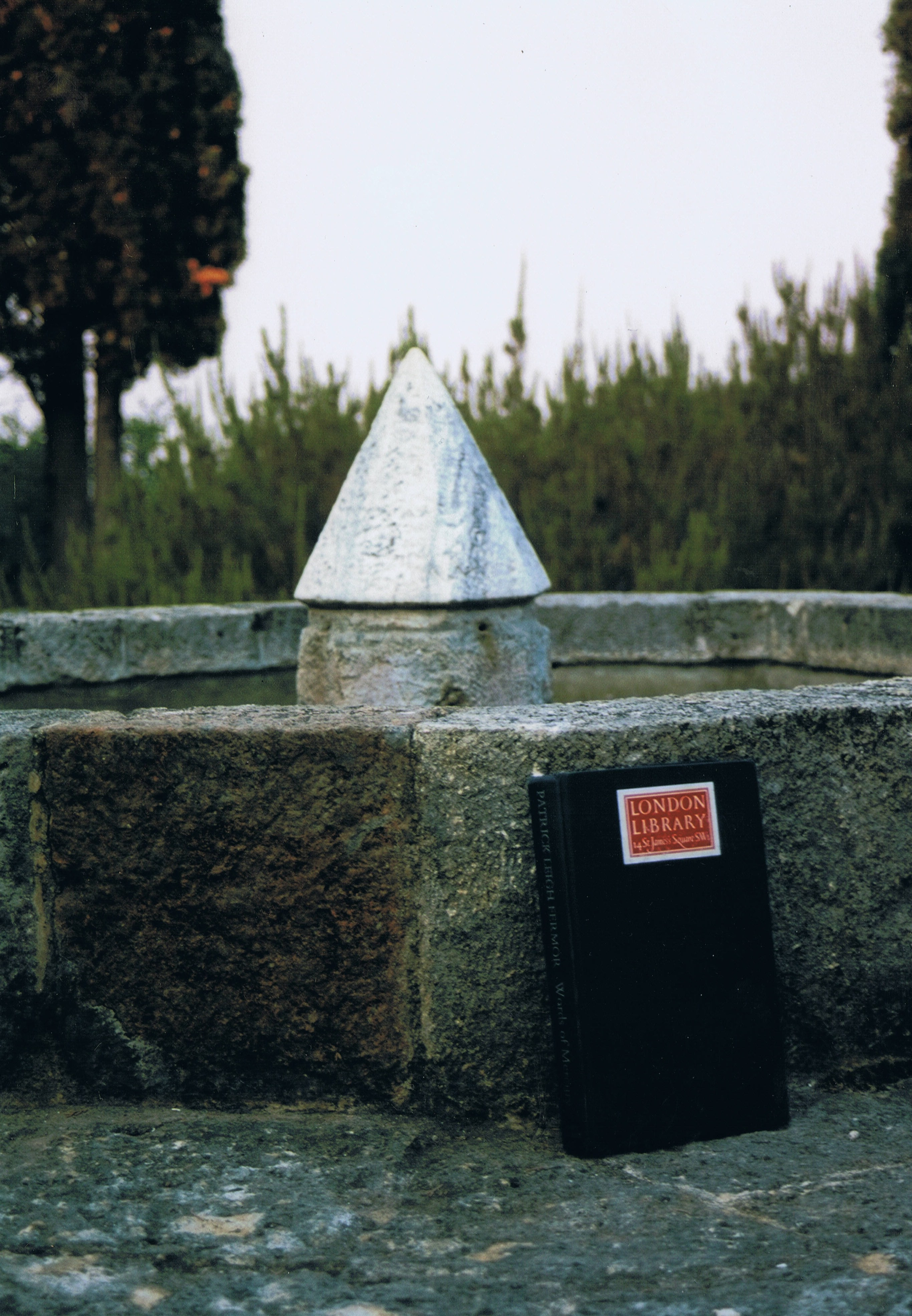 London Library book on vacation. Photo (R. de Salis) August 2007, Morea, Greece. Rodolph 16:57, 22 October 2007 (UTC)